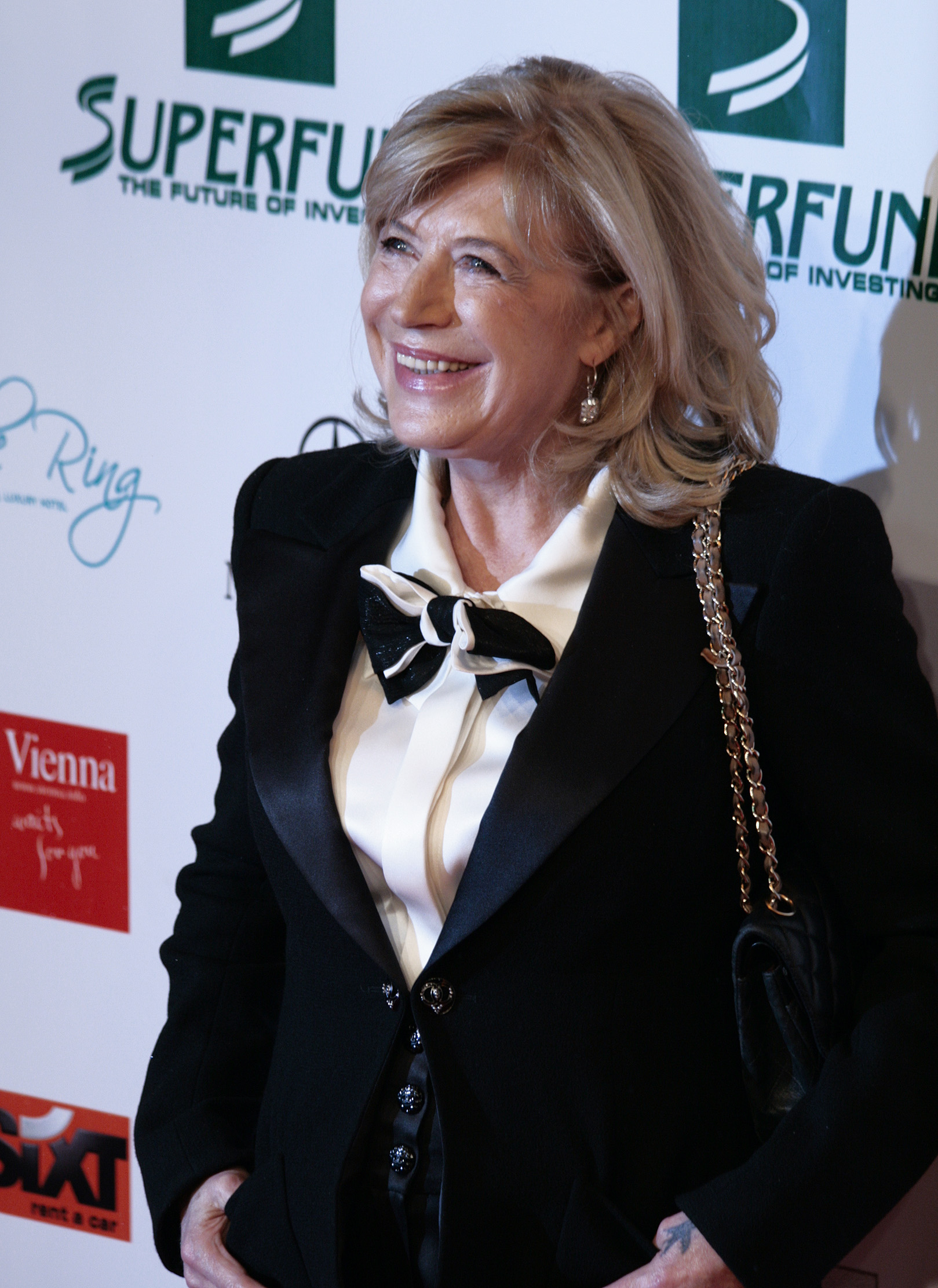 Marianne Faithfull at the Women's World Award 2009 (Wiener Stadthalle, Vienna, Austria).